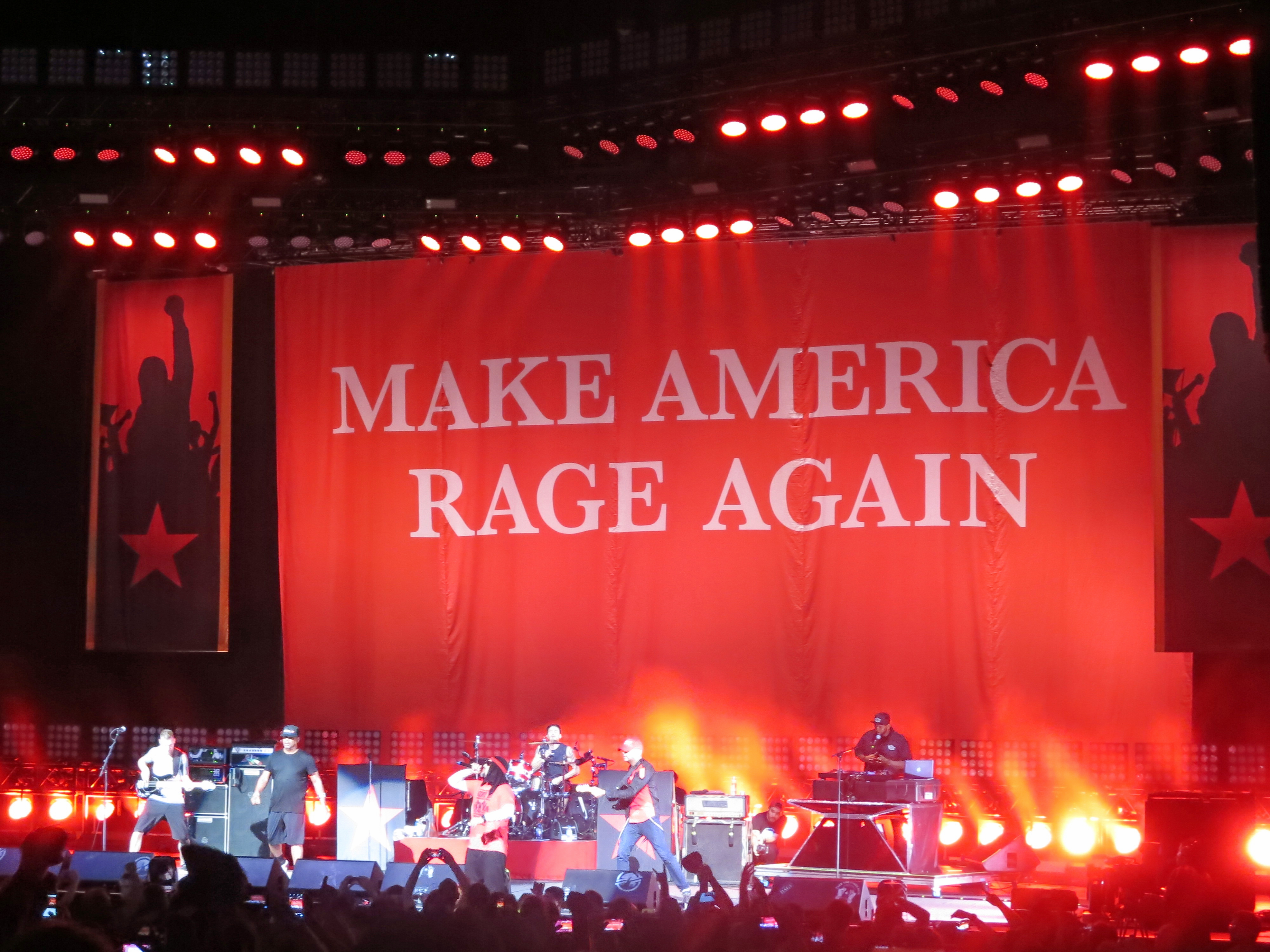 Prophets Of Rage @ Tinley Park, IL 9/3/2016